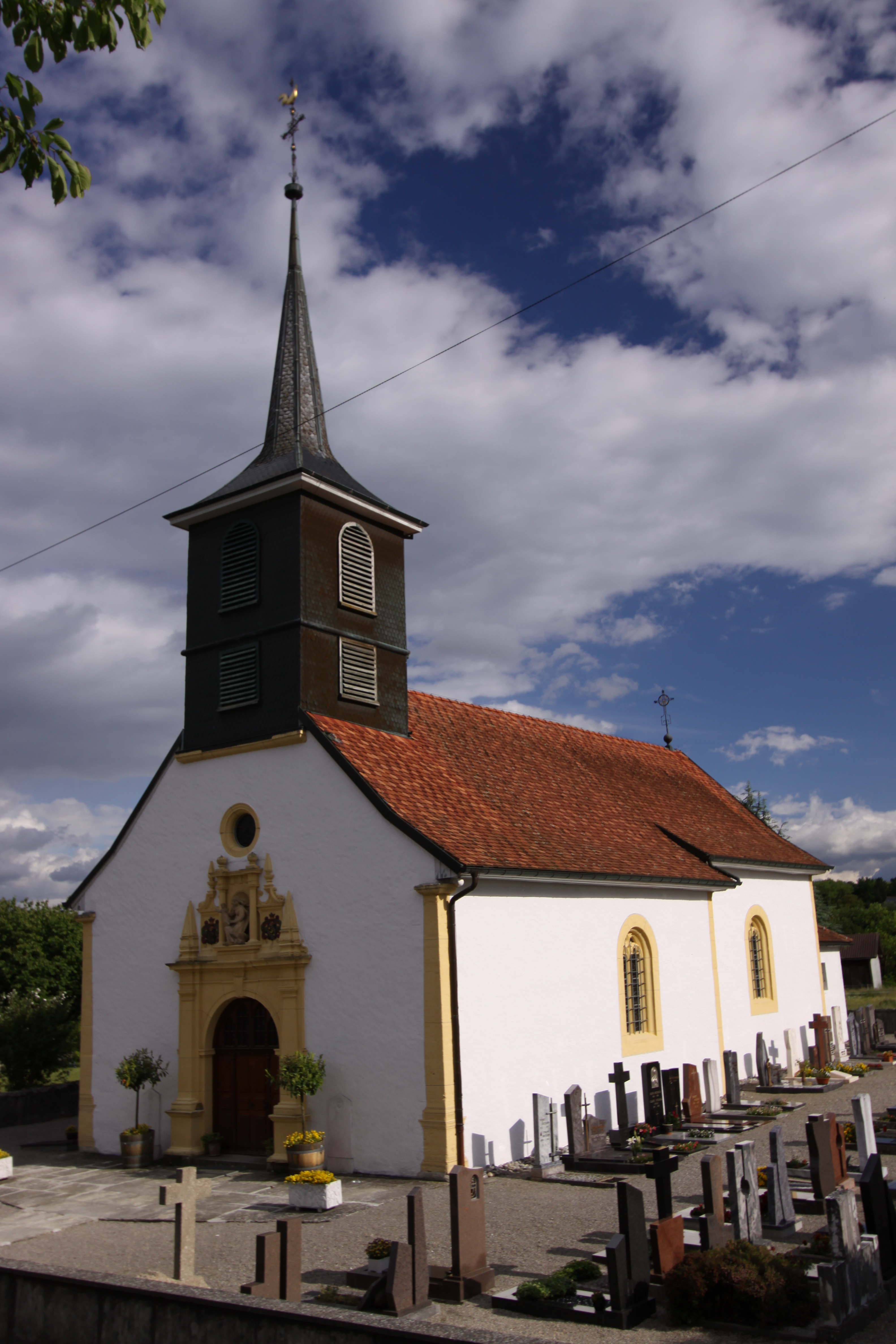 Parish Church of La Sainte-Trinité, Au Village 8, Les Montets